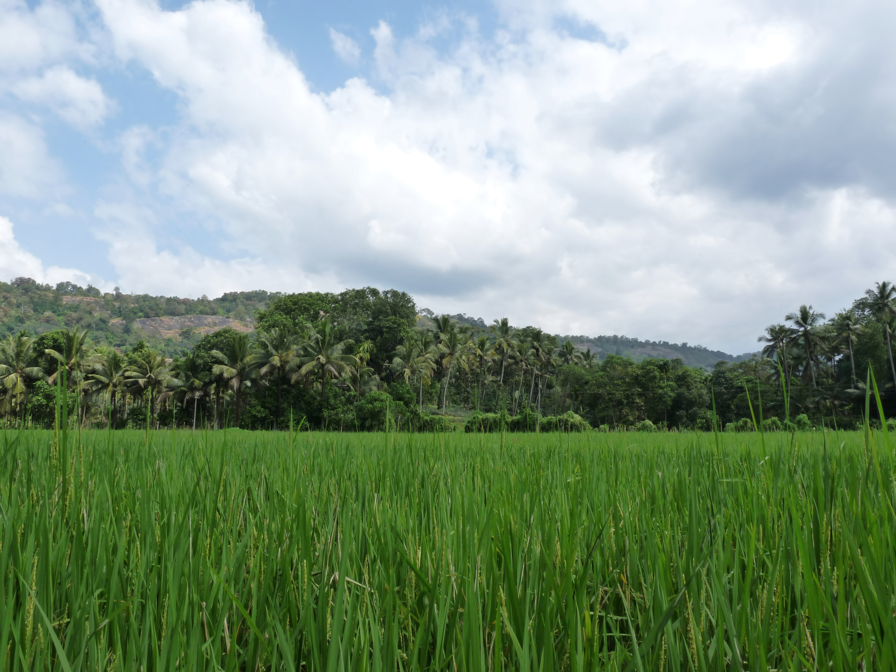 Oryza sativa, commonly known as Asian rice, is the plant species most commonly referred to in English as rice. Oryza sativa is the cereal with the smallest genome, consisting of just 430Mb across 12 chromosomes. It is renowned for being easy to genetically modify, and is a model organism for cereal biology. Oryza sativa contains two major subspecies: the sticky, short grained japonica or sinica variety, and the nonsticky, long-grained indica variety. Japonica varieties are usually cultivated in dry fields, in temperate East Asia, upland areas of Southeast Asia and high elevations in South Asia, while indica varieties are mainly lowland rices, grown mostly submerged, throughout tropical Asia. Rice is known to come in a variety of colors, including: White rice, Brown rice, Black rice, Purple rice, and Red rice. The rice plant can grow up to 3.3–5.9 ft tall, occasionally more depending on the variety and soil fertility. It has long, slender leaves 50-100 cm long and 2-2.5 cm broad. The small wind-pollinated flowers are produced in a branched arching to pendulous inflorescence 30-50 cm long. The edible seed is a grain 0.5-1.2 cm long and 2-3 mm thick. Rice cultivation is well-suited to countries and regions with low labor costs and high rainfall, as it is labor-intensive to cultivate and requires ample water. Rice can be grown practically anywhere, even on a steep hill or mountain. Although its parent species are native to South Asia and certain parts of Africa, centuries of trade and exportation have made it commonplace in many cultures worldwide.